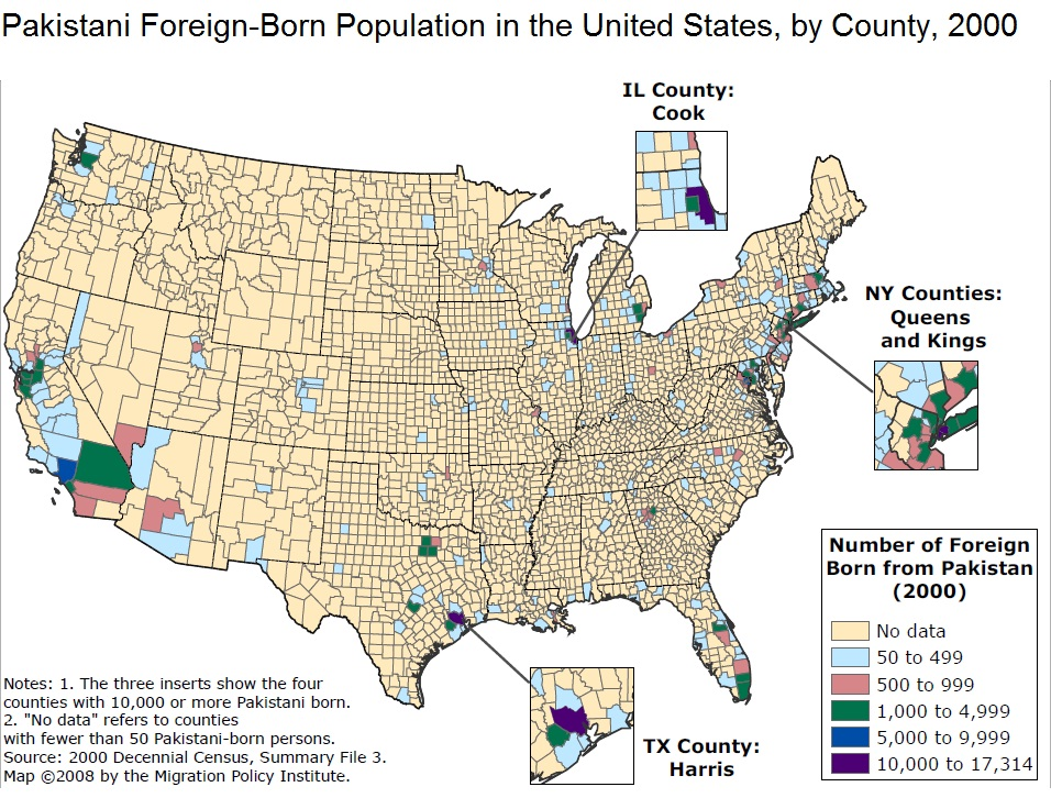 map showing pakistani born population living in the United States